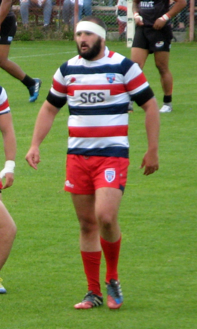 Gerogian rugby union football player, Ilia Surguladze, from CSA Steaua București rugby club seen training before a match against Timișoara Saracens in Romanian Rugby SuperLiga in April 2017